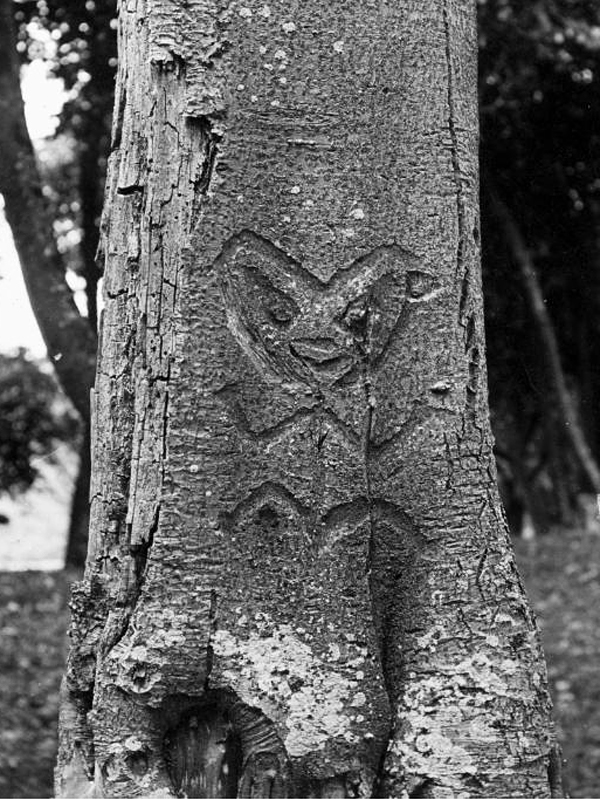 Moriori Dendroglyph, Chatham Islands, New Zealand, around 1900.